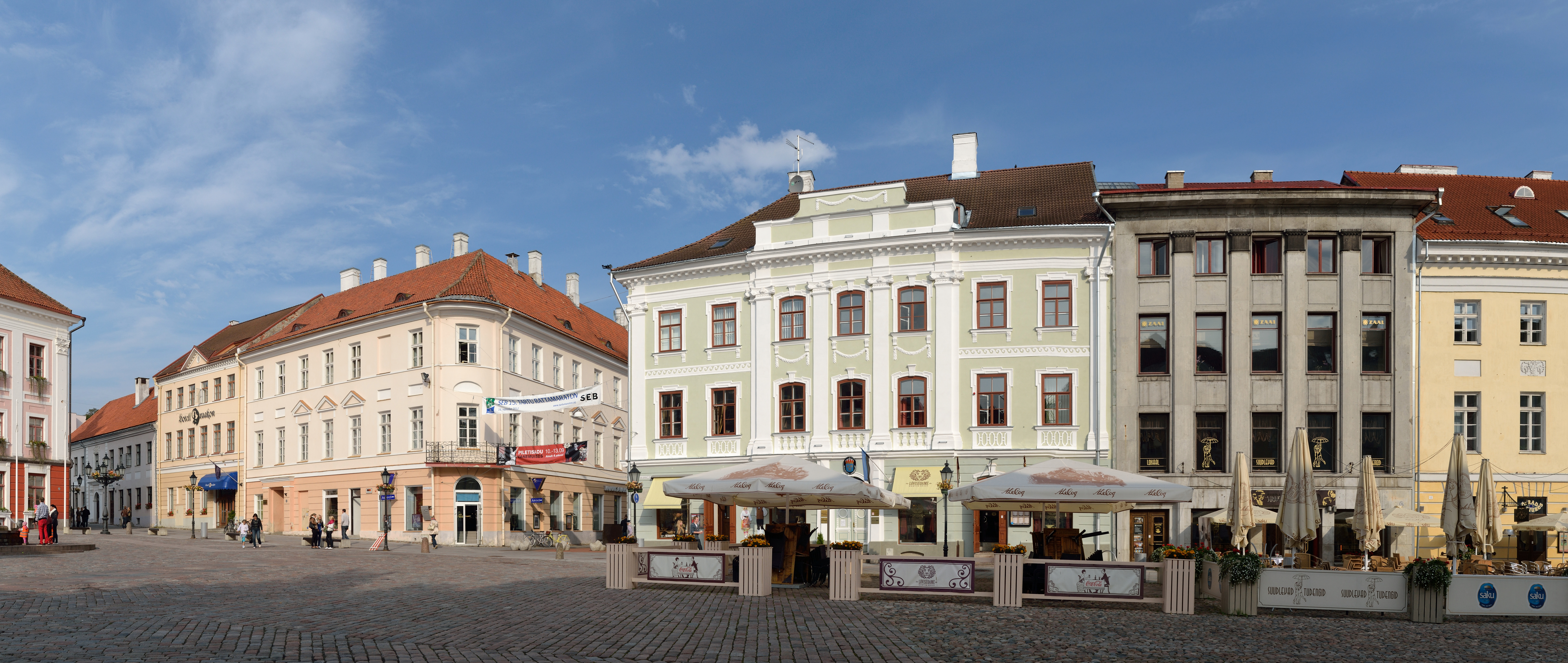 Buildings nr 6, 8 and 10 on Tartu Raekoja plats